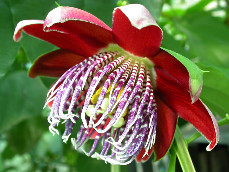 Fragrant Granadilla (Passiflora alata)